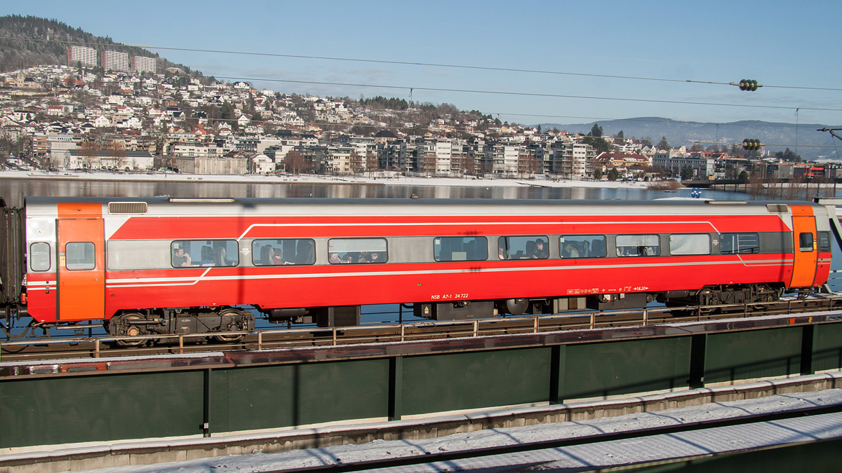 NSB (Norske tog) A7-1 24722 in Drammen.